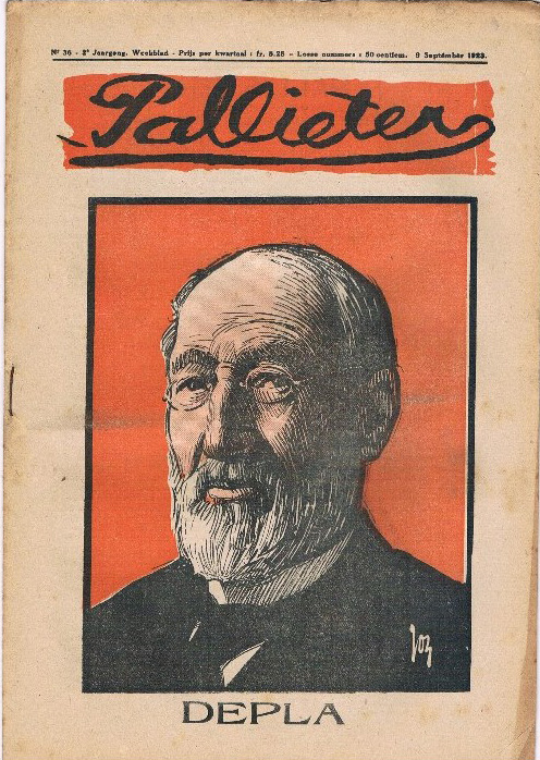 Alfons Depla (1860-1924). Front page of the Flemish magazine Pallieter (1922-1928). All front pages were designed and illustrated by Jos De Swerts (1890-1939).